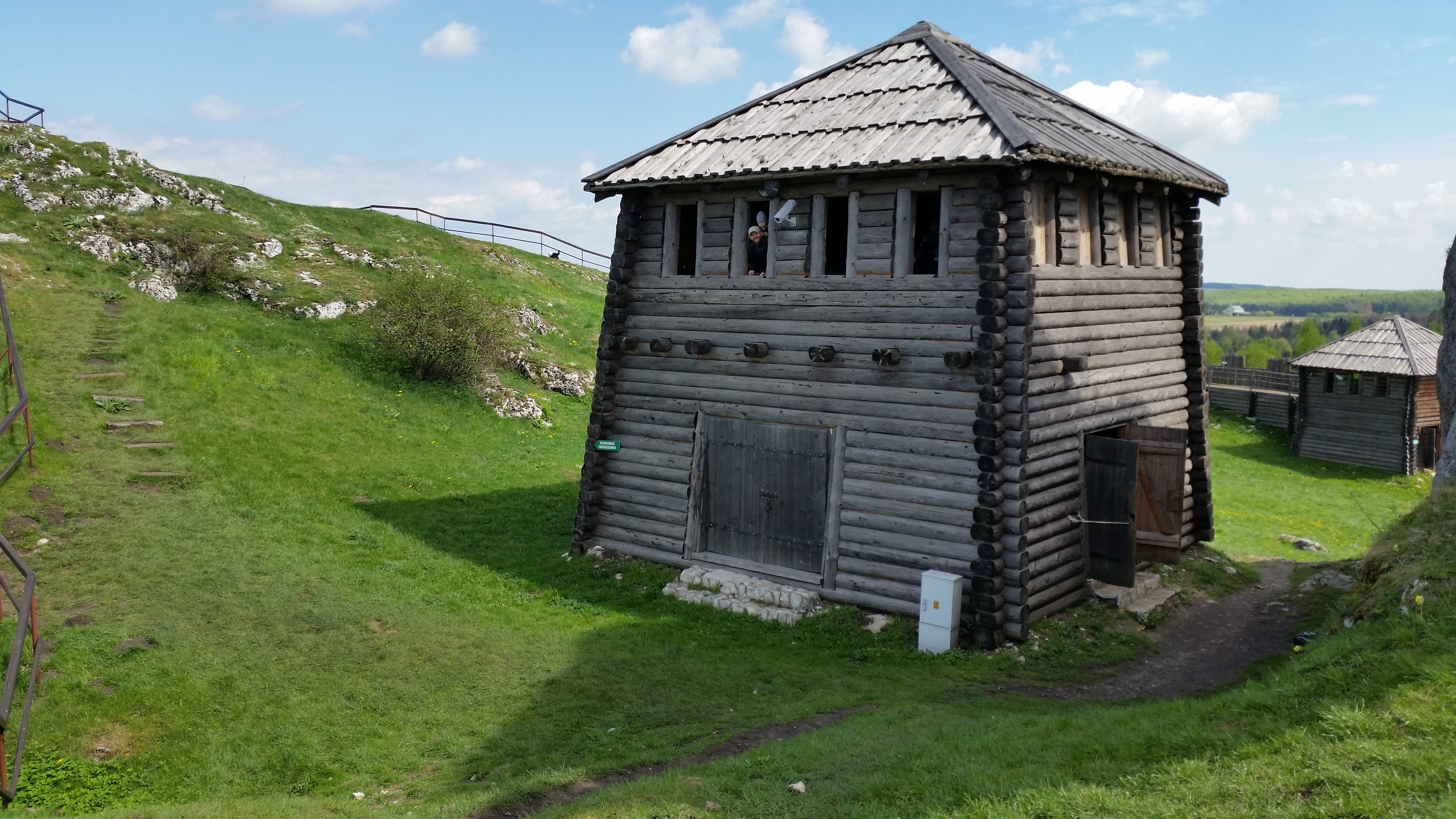 Fragment drewnianych zabudowań wchodzących w skład Grodu na Górze Birów